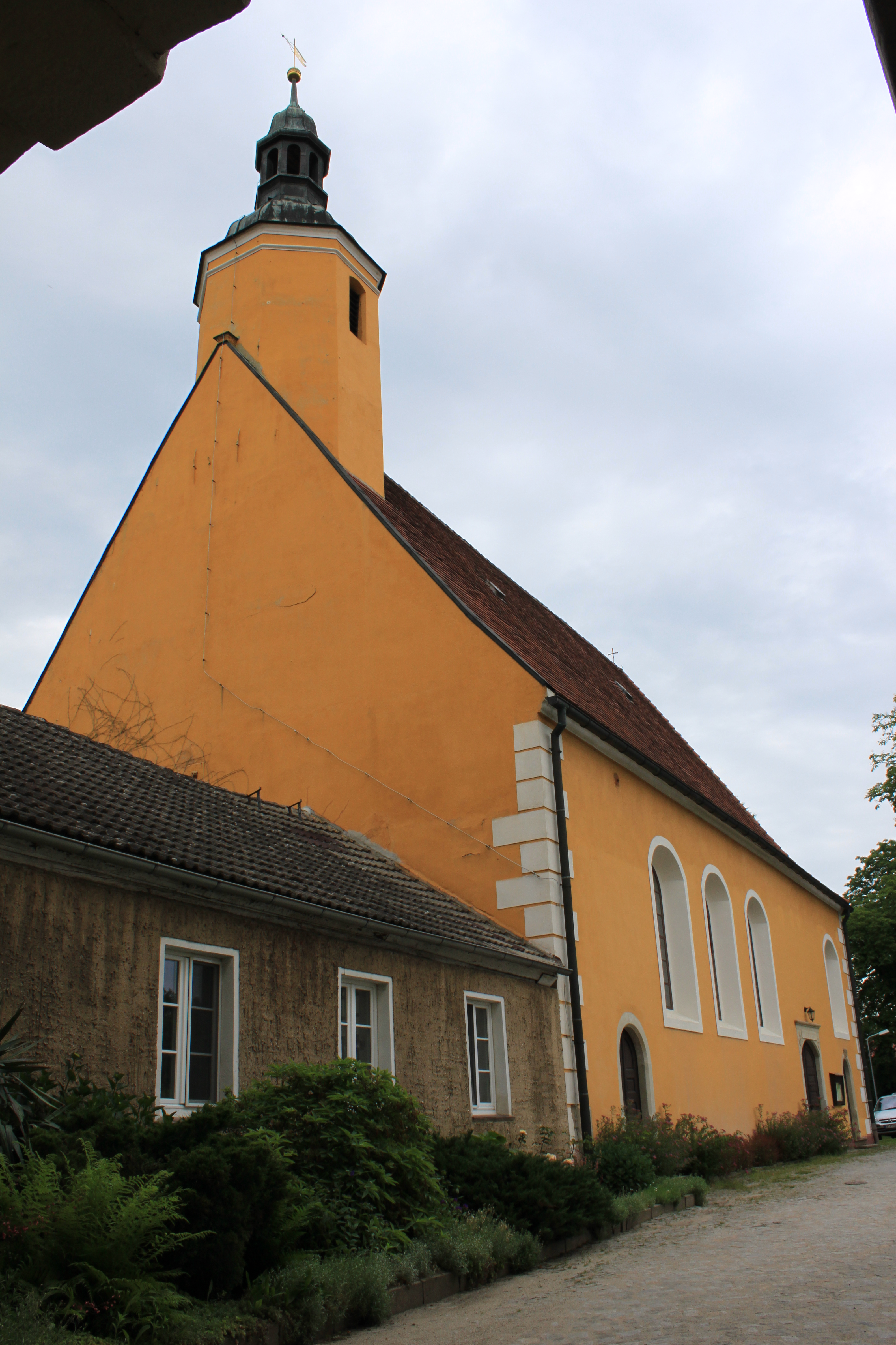 Castle Lindenau